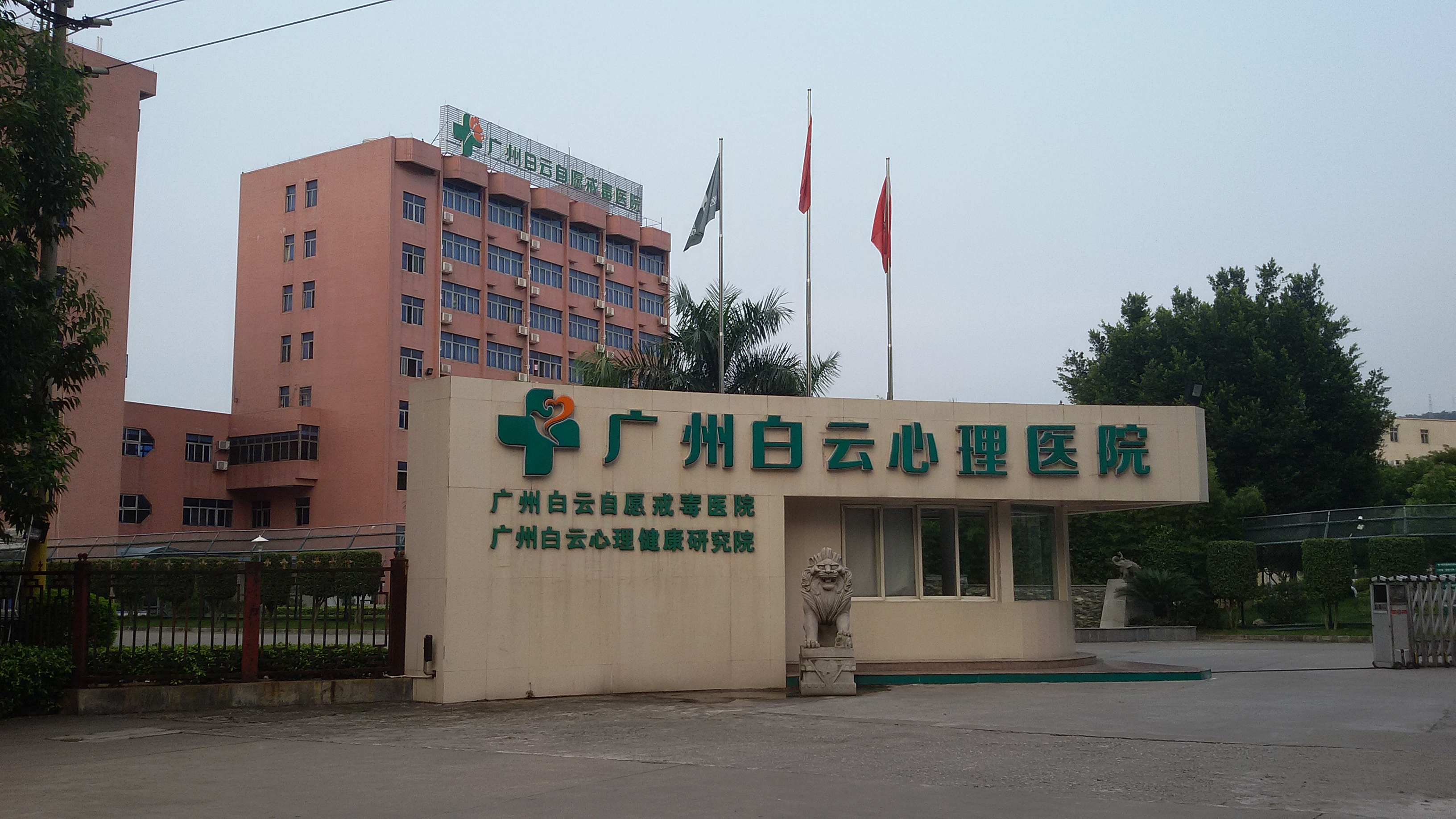 Guangzhou Baiyun Mental Hospital (Cantonese: Baak Wan Sam Lei Ji Jyun)